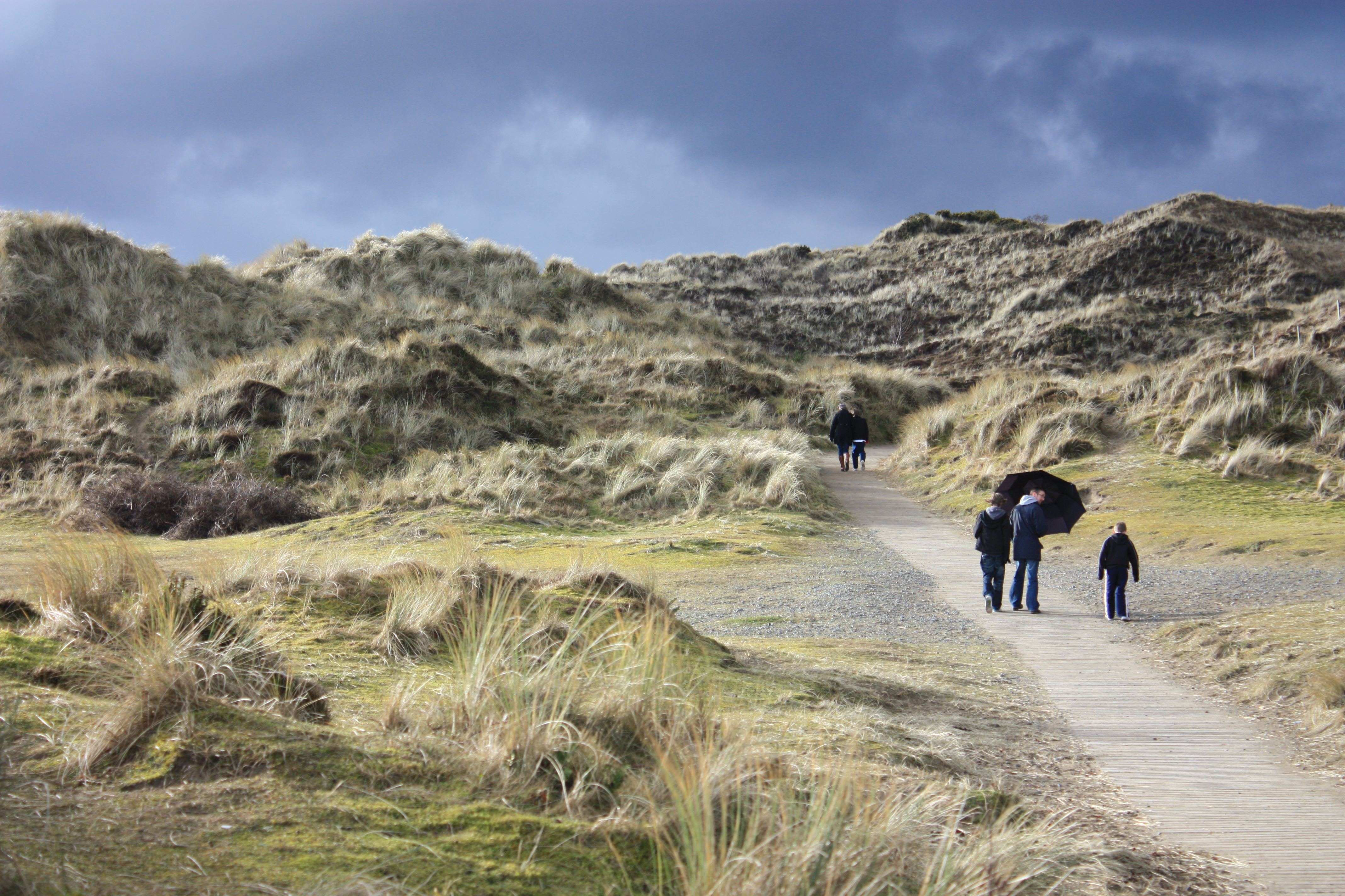 Murlough National Nature Reserve, Dundrum Road, Newcastle, County Down, Northern Ireland, February 2010